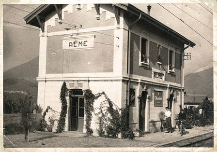 Almè railway station